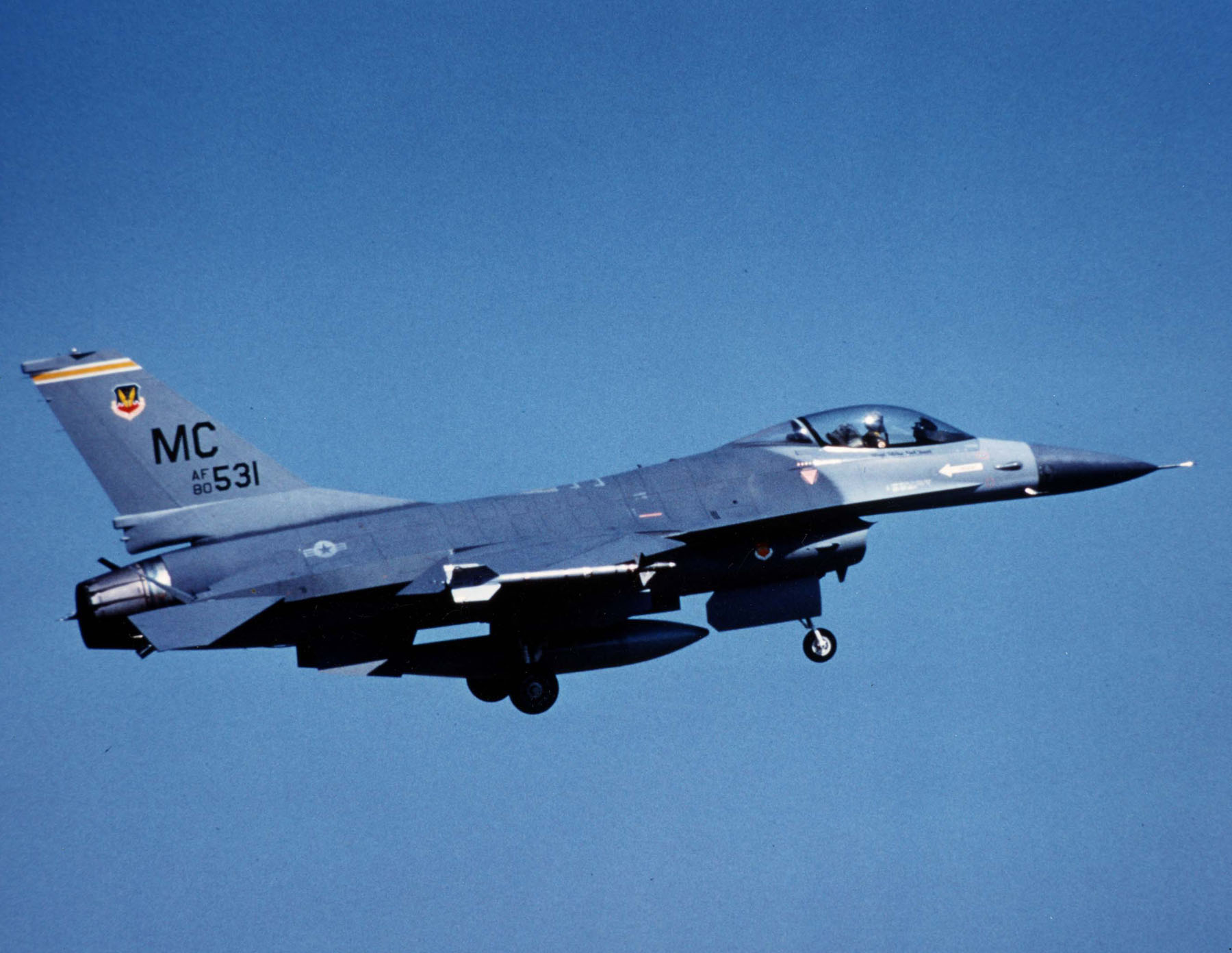 An F-16A Fighting Falcon lands at McConnell Air Force Base, Kan. (Courtesy photo)